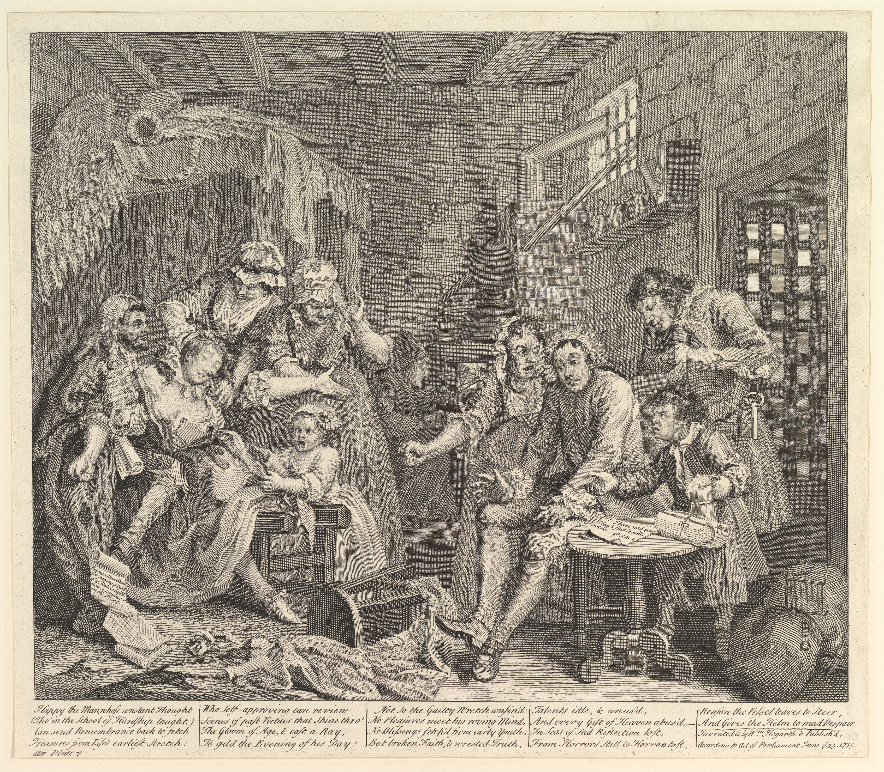 Print; Prints